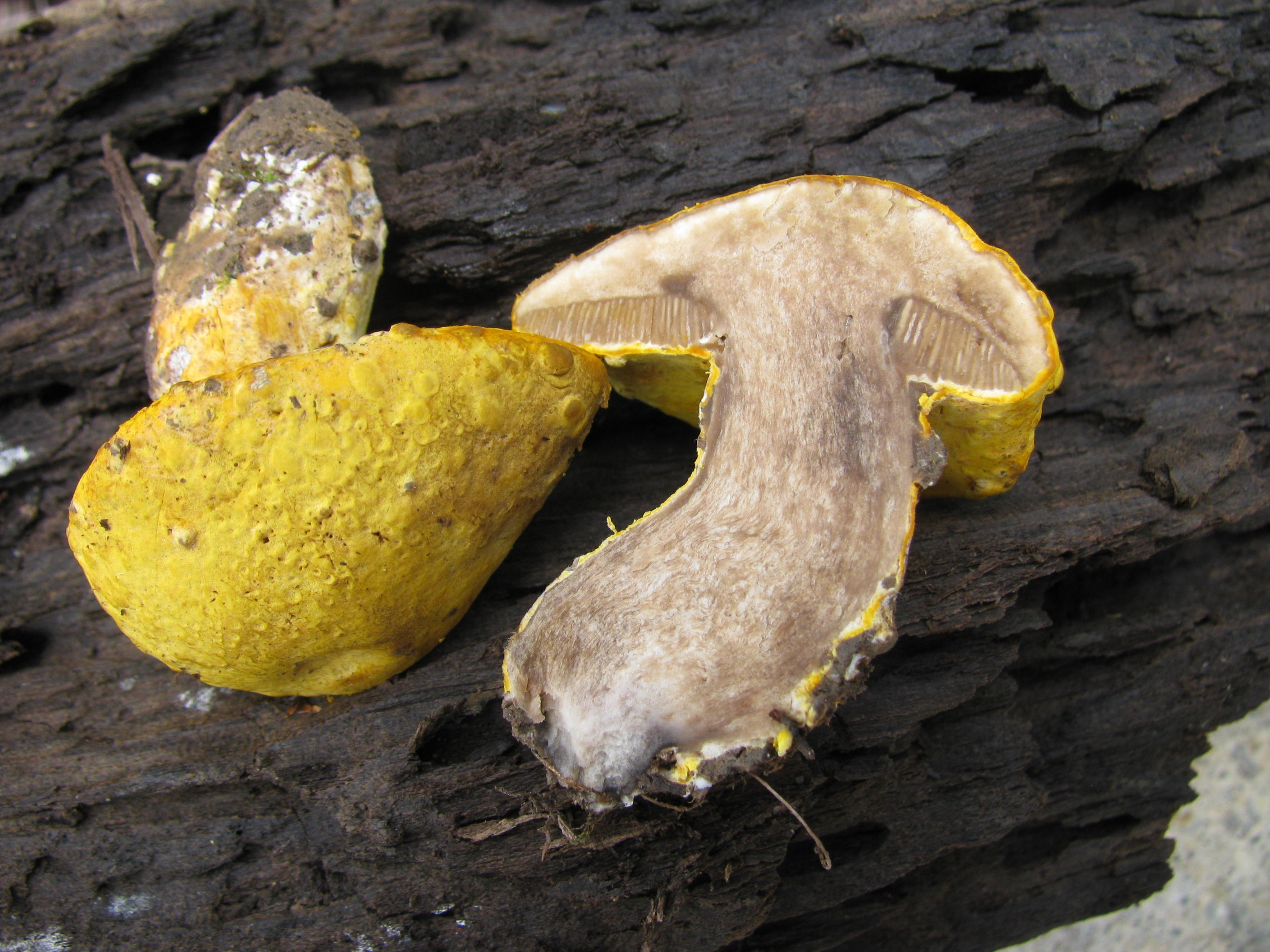 Hypomyces chrysospermus Tul. & C. Tul. Image location: Suson Park, St. Louis Co., Missouri, USA A strange looking fungus that I removed from the soil it was in at this park. Believe it was in an area of the park that is mowed frequently. Had to slice it open to try to figure out what it was. Maybe a Hypomyces on a gilled mushroom?? Recognized by sight Used references: Arora, Mushrooms Demystified. Called “Bolete Eater” in Arora. This clearly is the yellow form of H. chrysospermus, which also has a white form. For more information about this, see the observation page at Mushroom Observer.